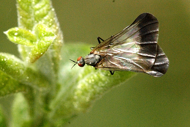 Picture taken in Commanster, Belgian High Ardennes . Species: female Rhamphomyia marginata